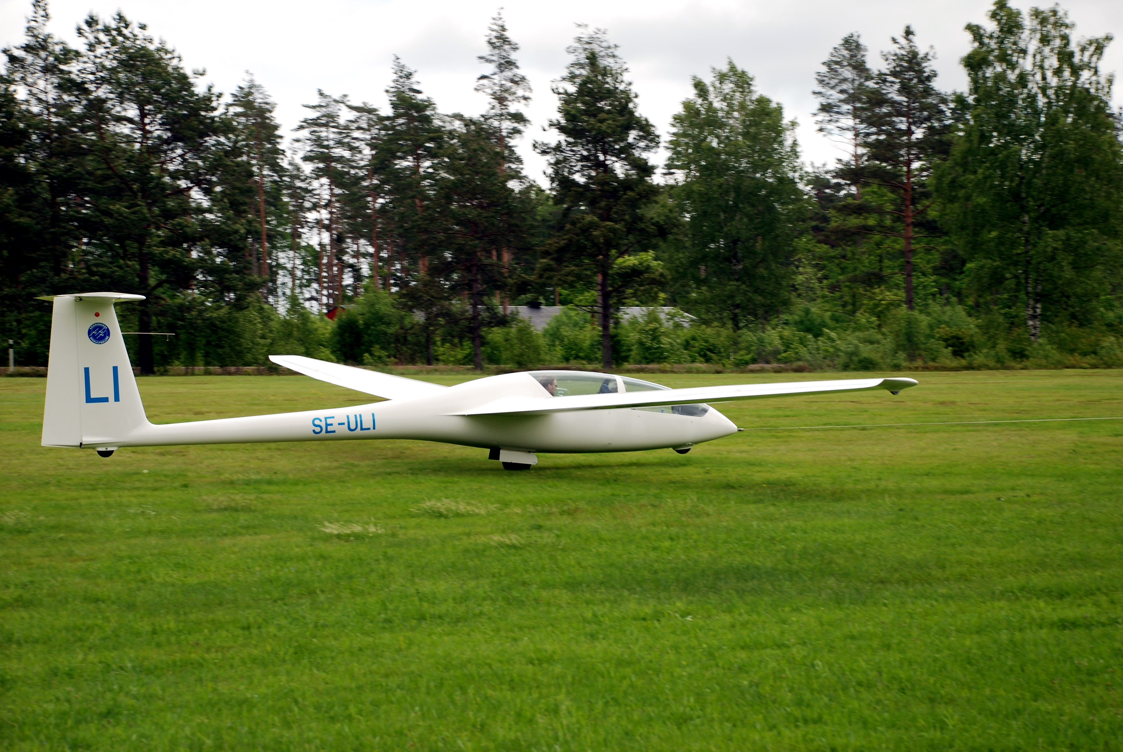 A DG-500 trainer taking off at Kronobergshed